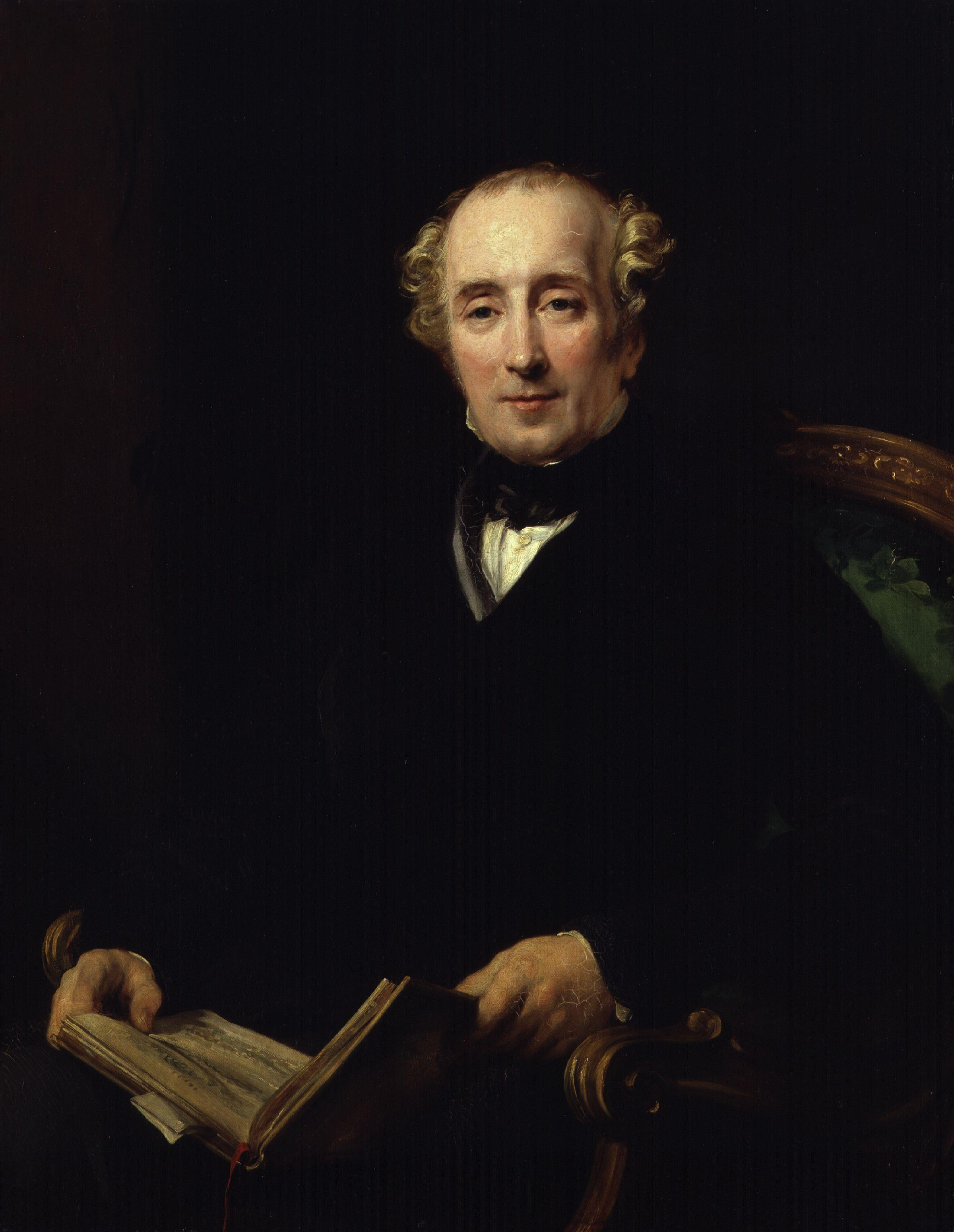 Patrick Fraser Tytler, by Margaret Sarah Carpenter (née Geddes) (died 1872). All images in this batch have been confirmed as author died before 1939 according to the official death date listed by the NPG.